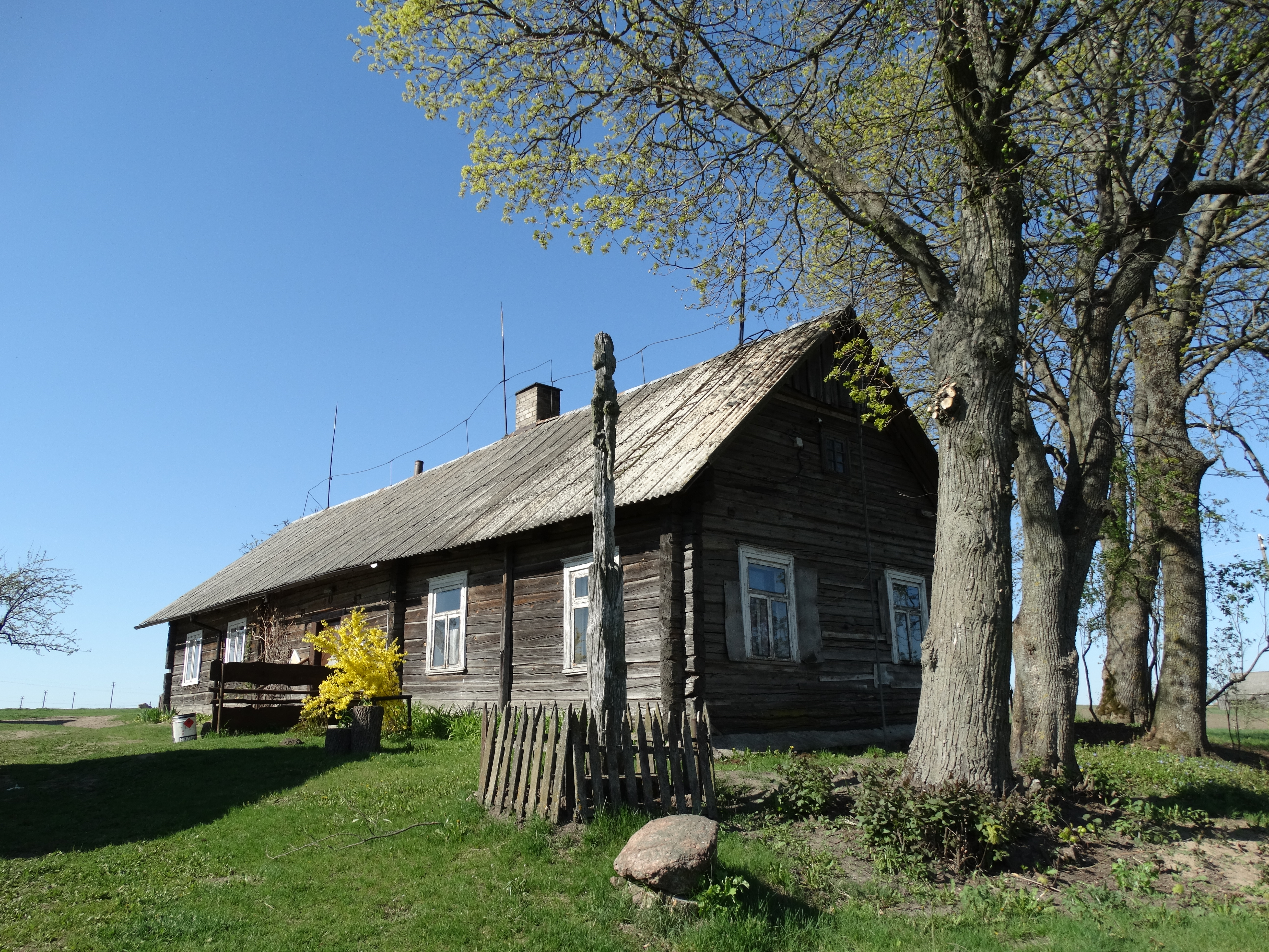 Svirskis cross (remains), Iciūnai, Panevėžys District, Lithuania